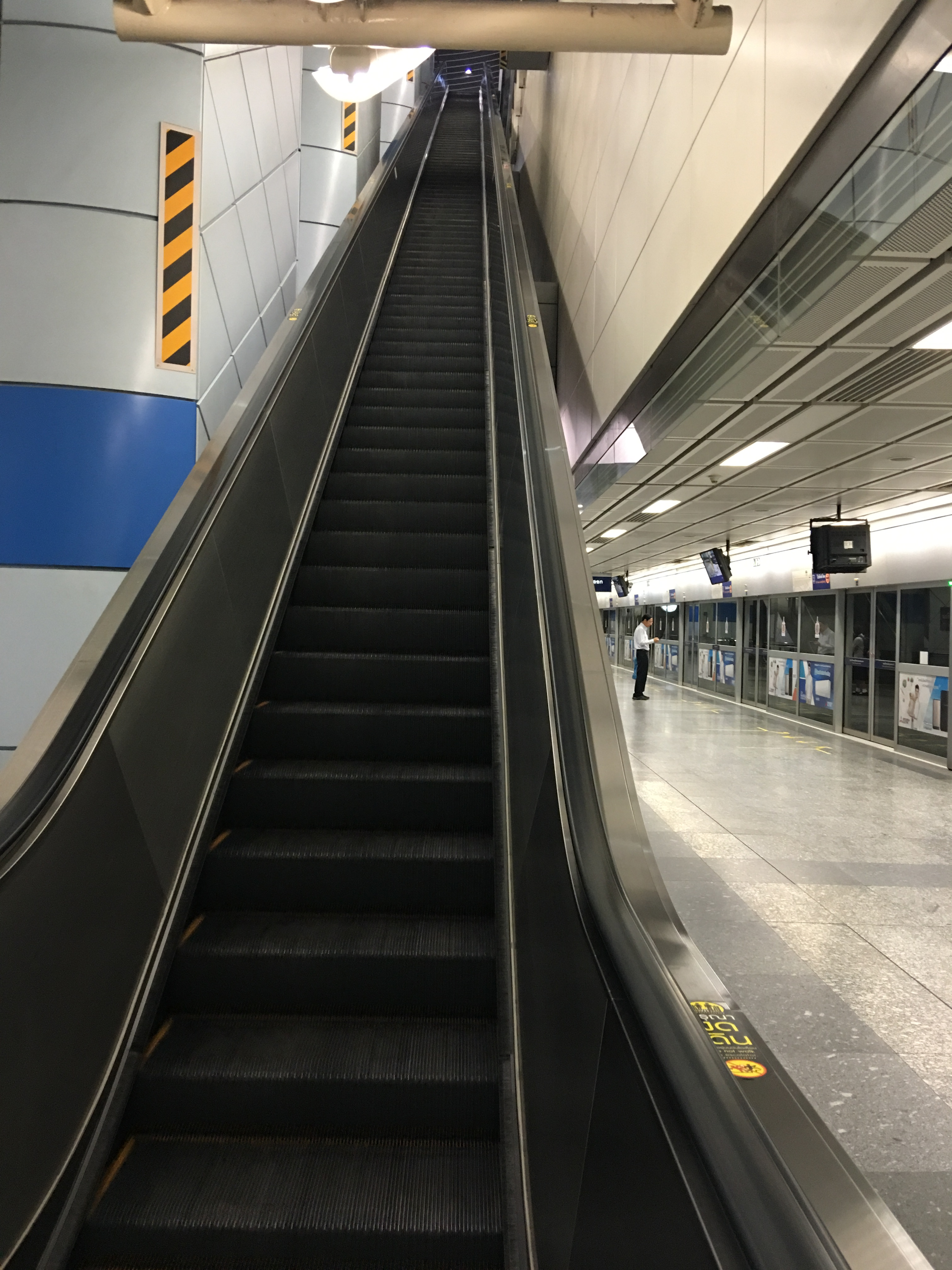 The longest escalator in Southeast Asia, at Si Lom Station